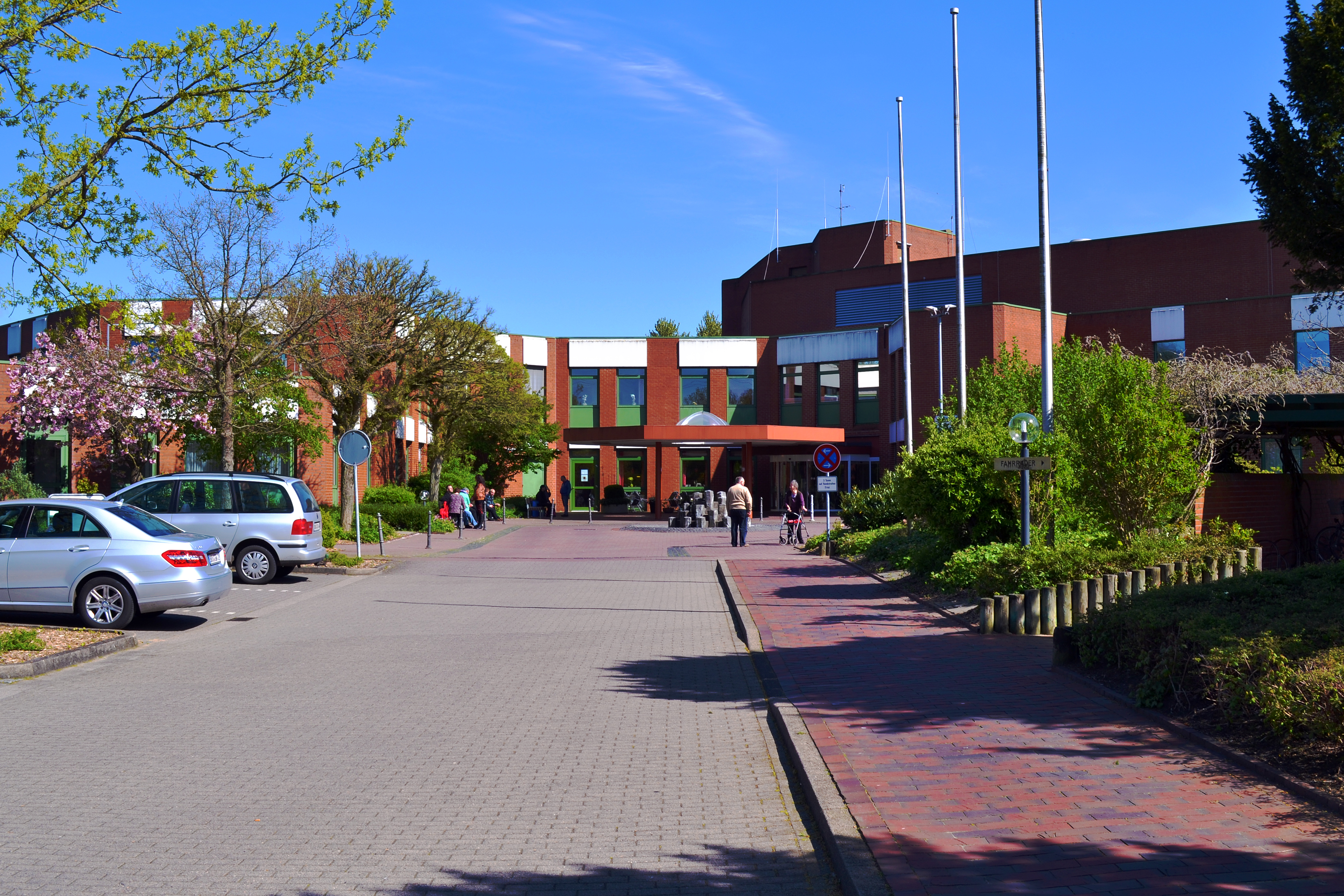 This picture shows the Bremervörder OsteMed hospital, located in the most southern district Engeo.